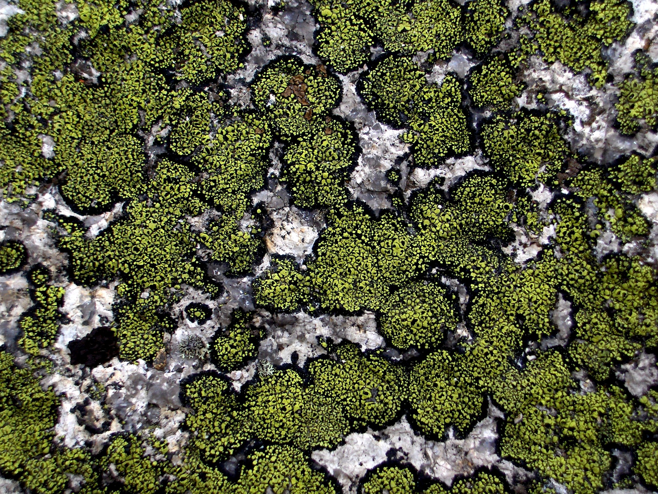 Rhizocarpon geographicum, the map lichen. Growing on a rock face in Acadia National Park in Maine. If you zoom in on the larger pictures, you can see the beautiful and intricate green and black pattern. It turns out this species of lichen is common all over the globe on sheer rock faces and can be used to date events within 1000 years. The radius of an individual R. geographicum colony increases by about 0.5 to 0.8 mm/year (depending on the altitude)*. That would suggest that these colonies are at least over 100 years old (and hence are starting to fuse together). RK Chaujar in Current Science p 1552 (2006)